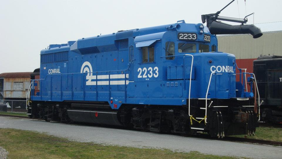 Conrail 2233